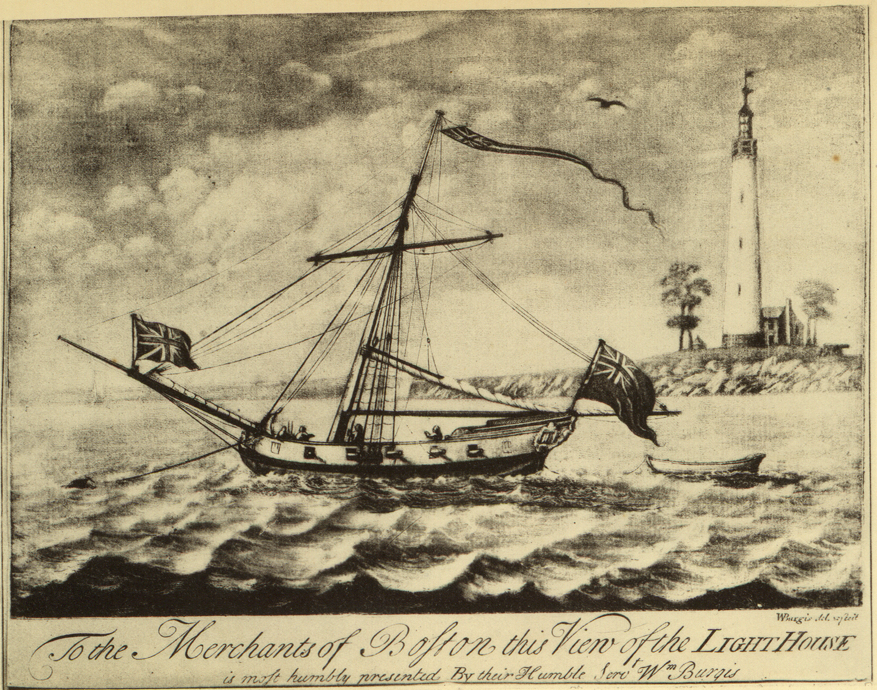 Caption: "To the Merchants of Boston this View of the Light House is most humbly presented By their Humble Servt Wm. Burgis." Reproduction of mezzotint. Caption on page (not shown): "The first light-house build within the limits of the United States." Illus. in: Annual Report of the U.S. Light-House Board, 1884, frontispiece.